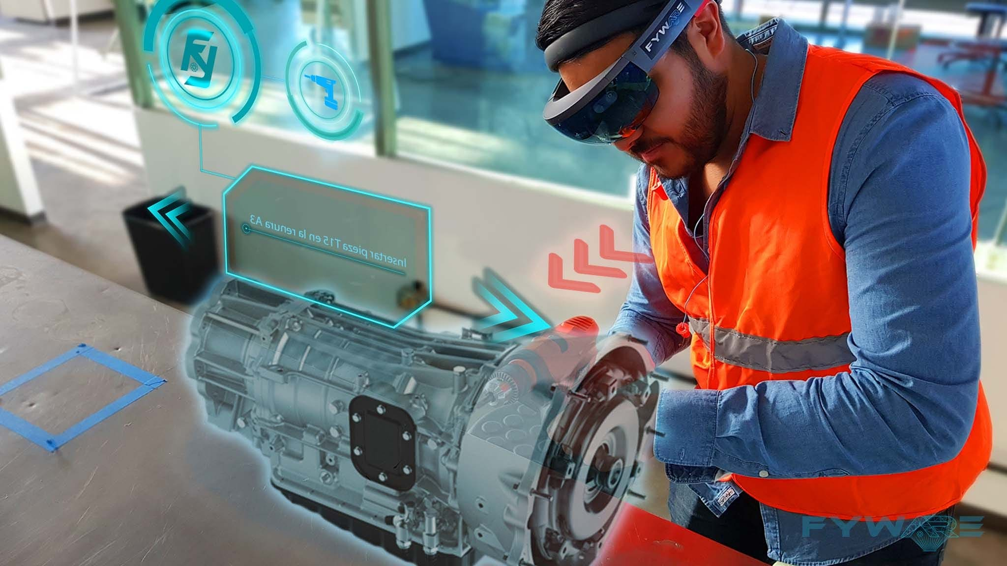 Augmented Reality for industrial Training